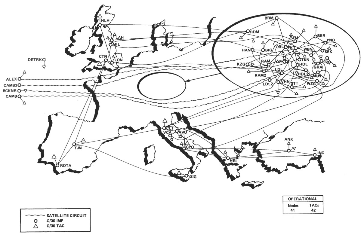 MILNET map - Europe, 1989.